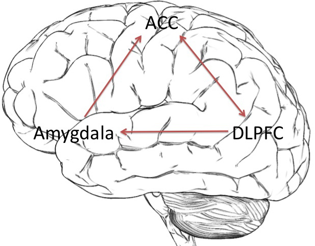 Brain regions involved in racism.